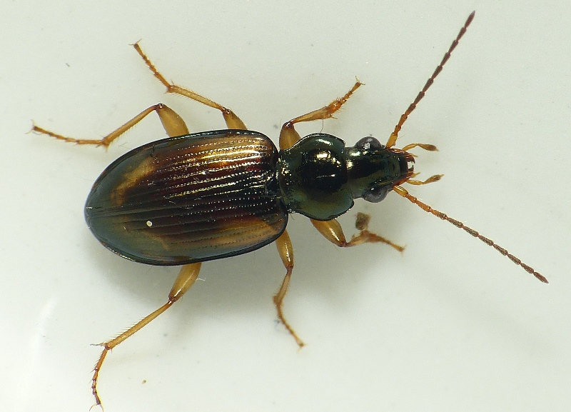 Bembidion femoratum, location: The Netherlands - Rhenen - Blauwe Kamer